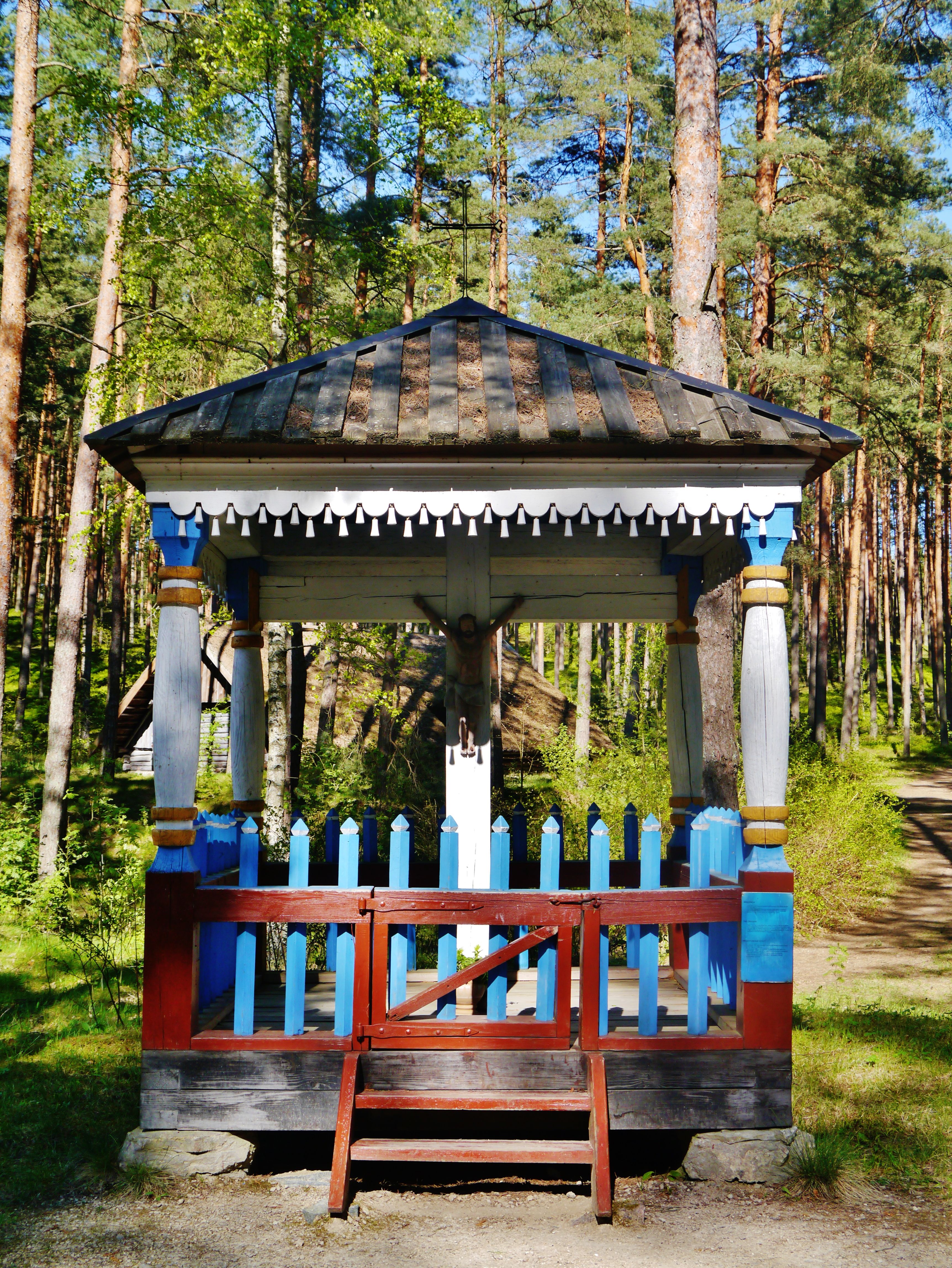 A Catholic wayside shrine built in 1887 at "Kapiņi", Guti village, Latgale, moved to the Latvian Ethnographic Open Air Museum in 1990.